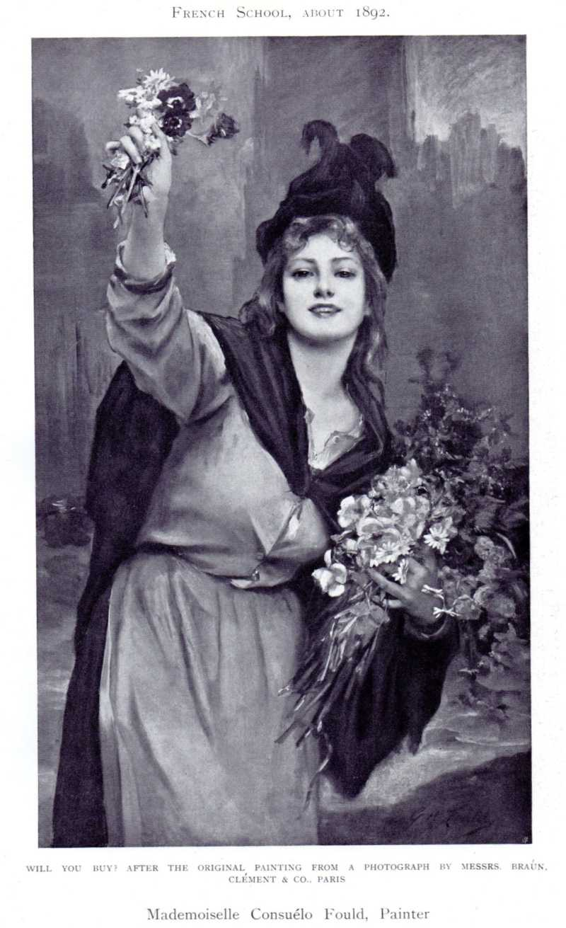 1905 print after page of Women painters of the world, from the time of Caterina Vigri, 1413-1463, to Rosa Bonheur and the present day, by Walter Shaw Sparrow, The Art and Life Library, Hodder & Stoughton, 27 Paternoster Row, London